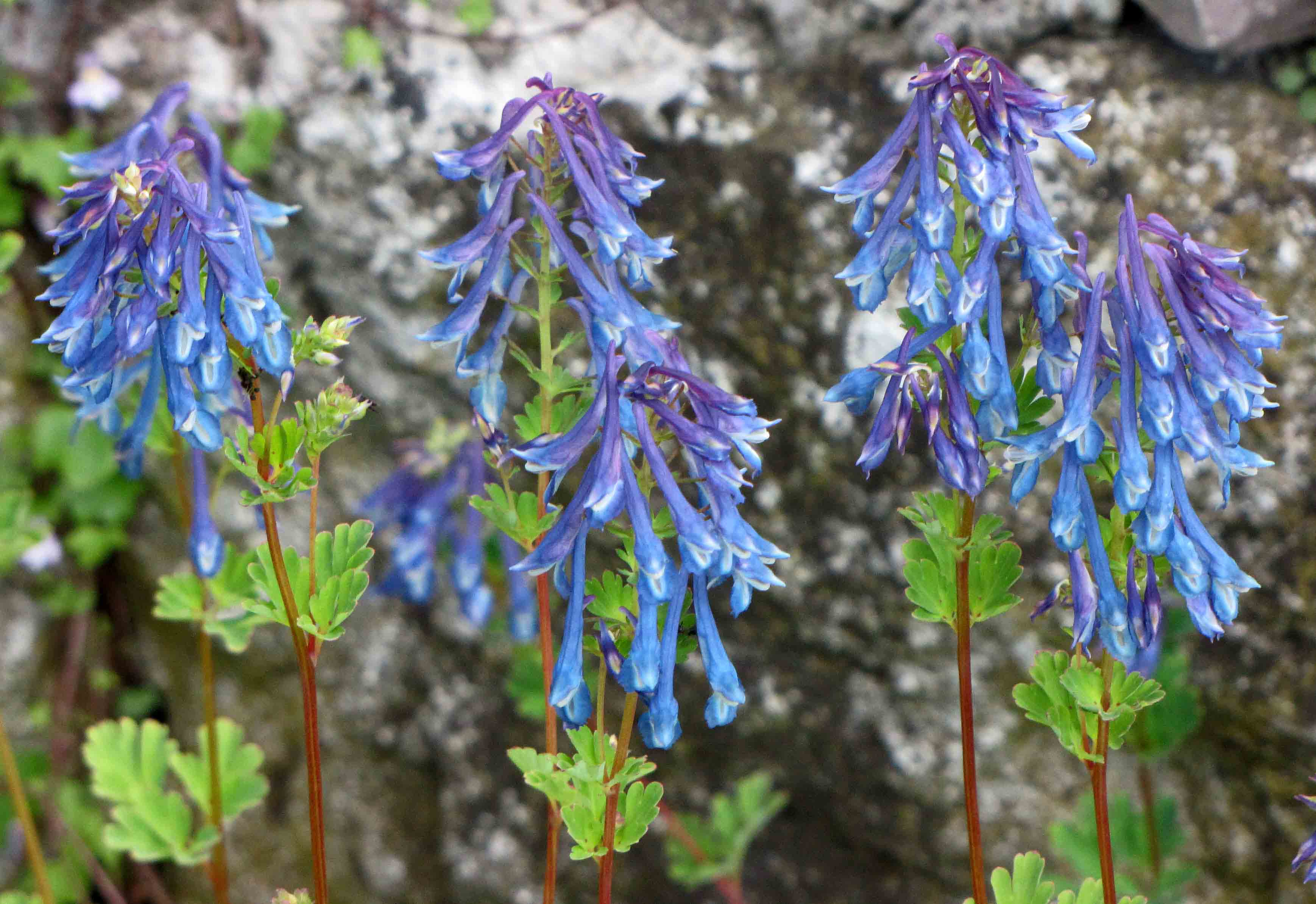 穆坪紫堇 Corydalis flexuosa 'Purple Leaf' [波蘭 Krakow Jagiellonian University Botanic Garden, Poland]